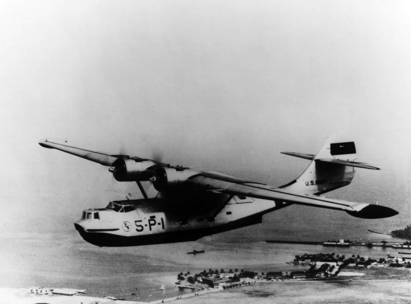 A U.S. Navy Consolidated PBY-3 Catalina from Patrol Squadron VP-5 in flight. Note the "Wings over Panama" insignia on its nose.